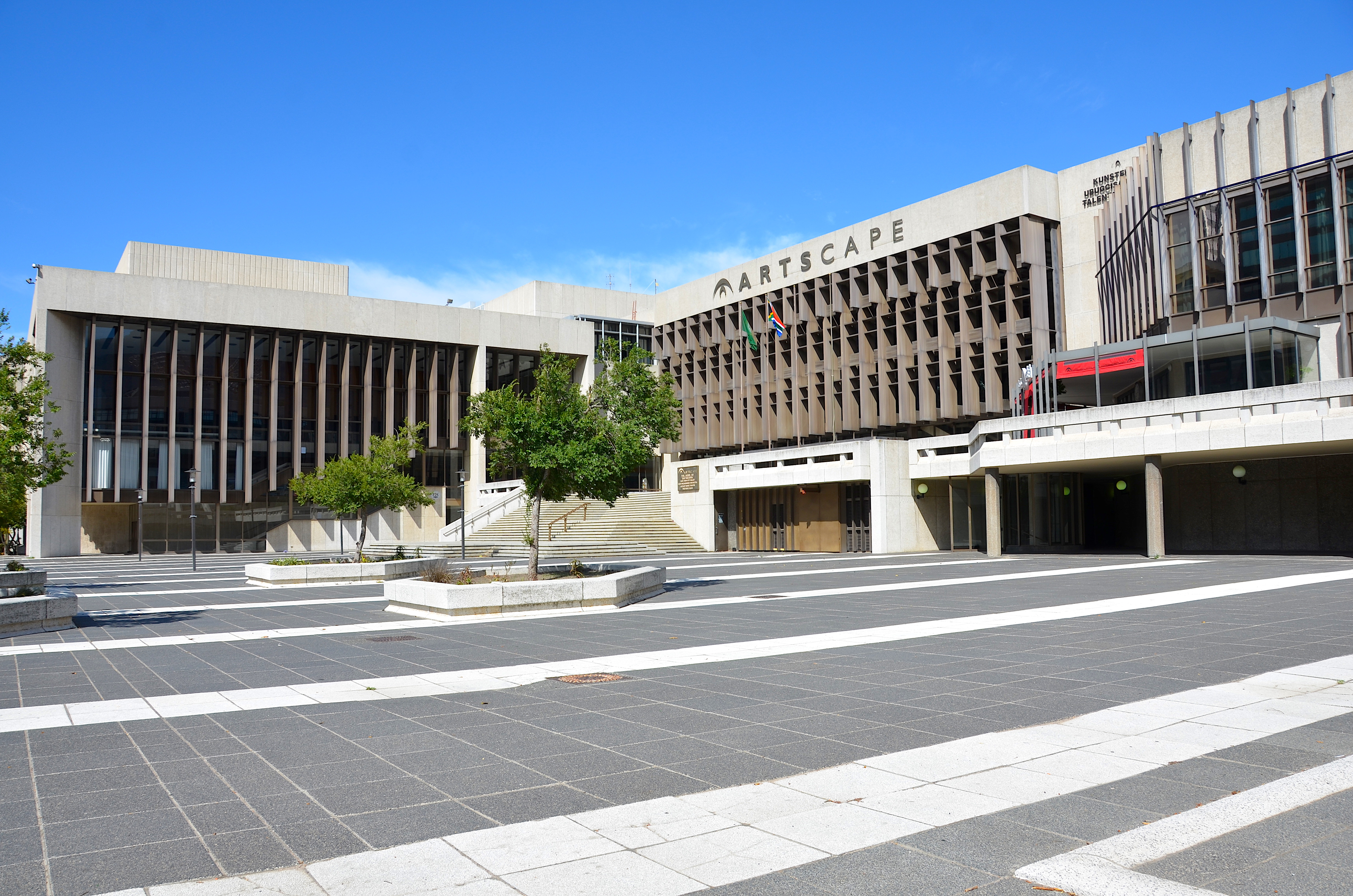 Artscape Theatre Centre in Cape Town (2017)